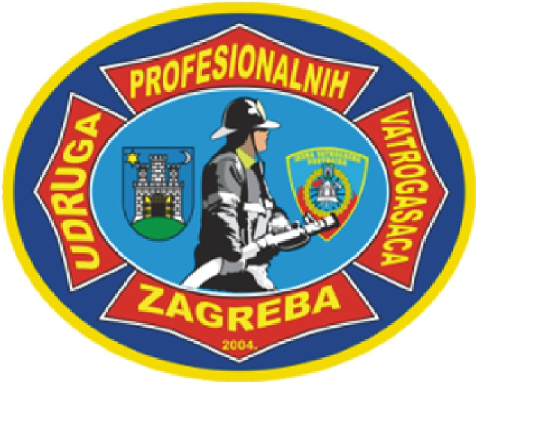 Logo of assosiation of professional firemans of Zagreb city